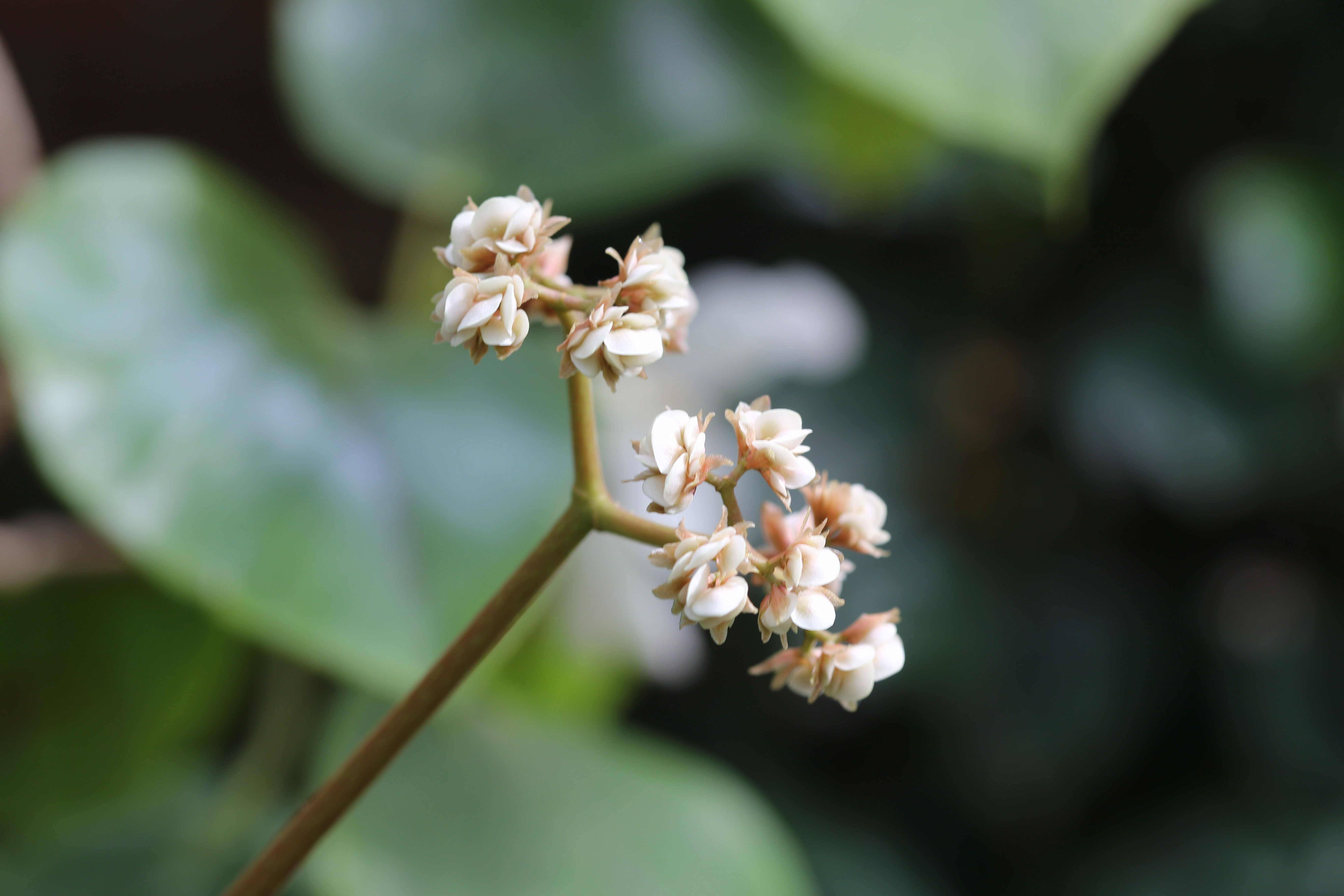 Begonia petasitifolia in Gothenburg Botanical Garden. Plant id: 2009-1478